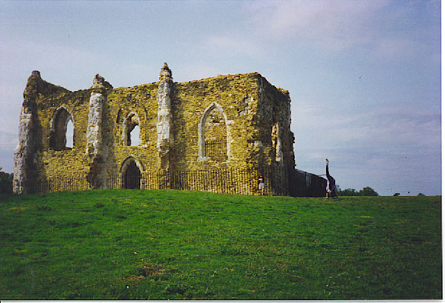 St Catherine's Chapel, Guildford. Sitting on the hill on the west bank of the Wey, the chapel is beside the site of the old St Catherine's Fair. It is also on the Pilgrim's Way, the supposed long distance mediaeval path between Winchester and Canterbury.